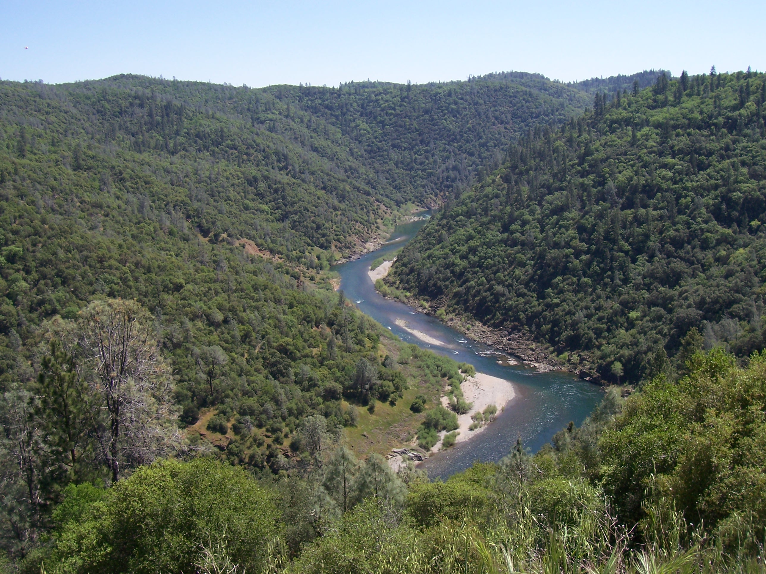 Personal photo